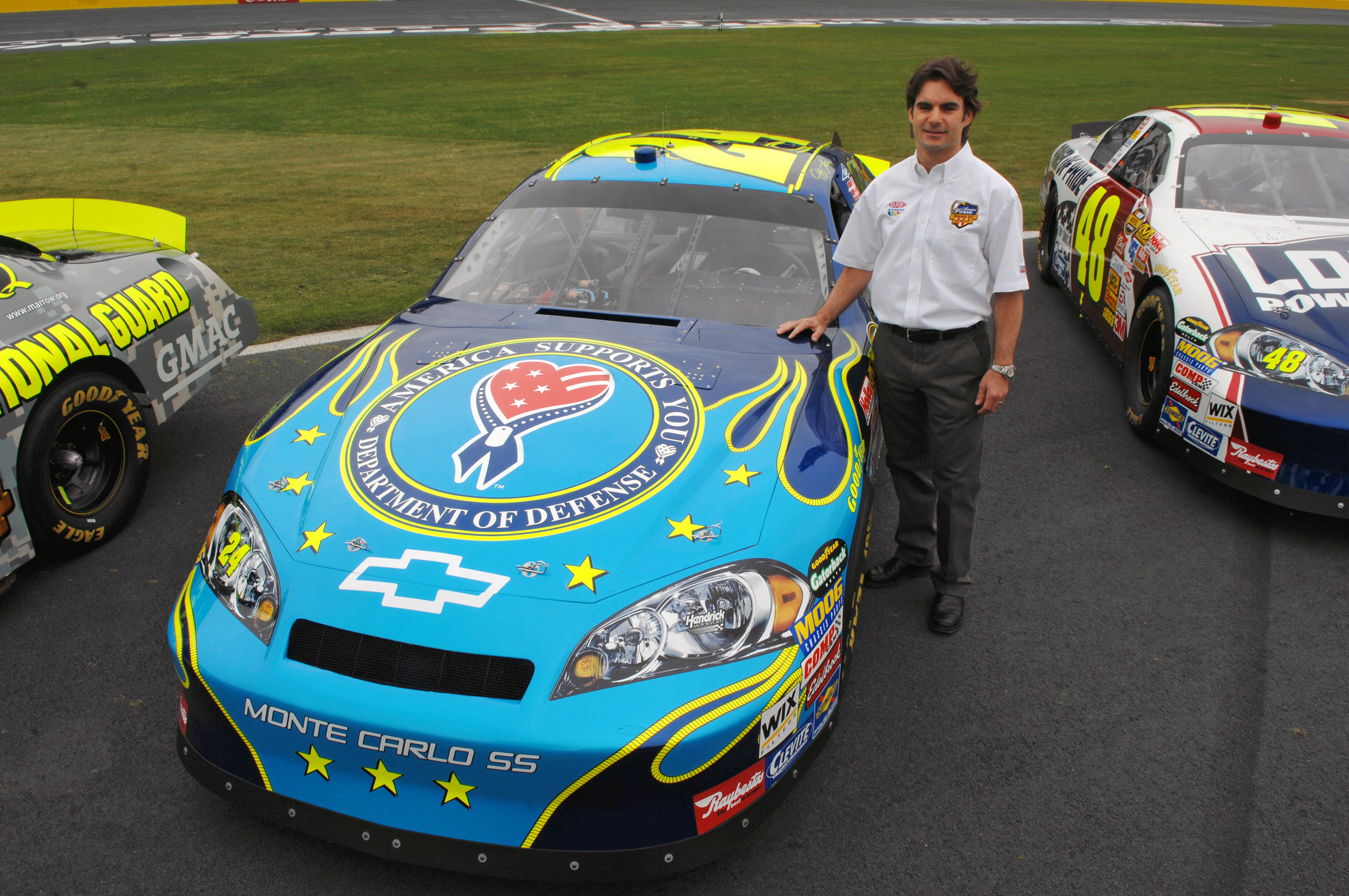 NASCAR driver Jeff Gordon stands next to his number 24 car sporting the 'America Supports You' logo on its hood. Jeff will drive his car with his new logo in the Coca-Cola 600 on Memorial Day in Charlotte. Jeff is one of eight teams and drivers participating in the 'American Heroes Memorial Day salute to the Armed Forces' at the Lowe's Motor Speedway in Charlotte, N.C.